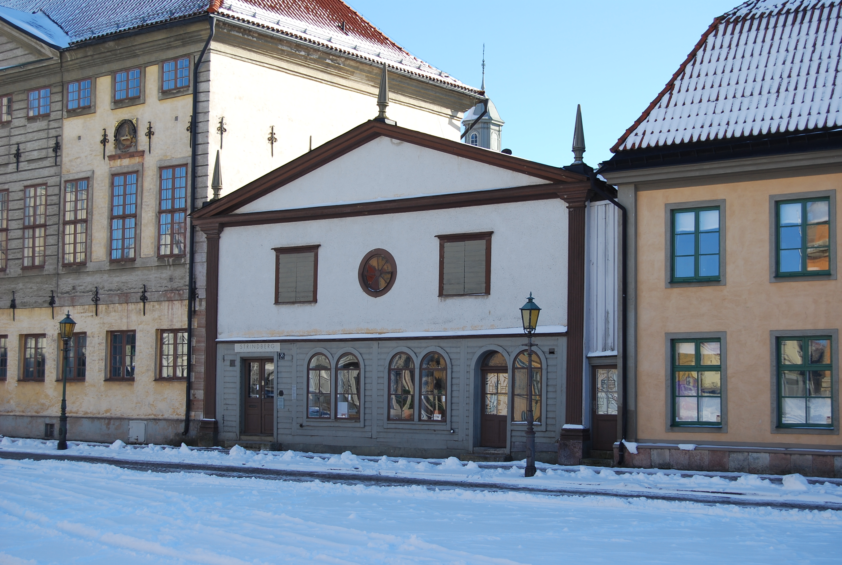 Kalmar´s old fire station